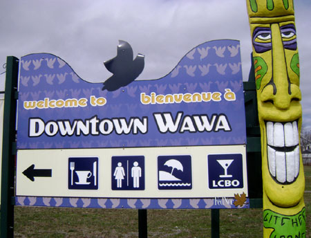 Wawa, Ontario sign.